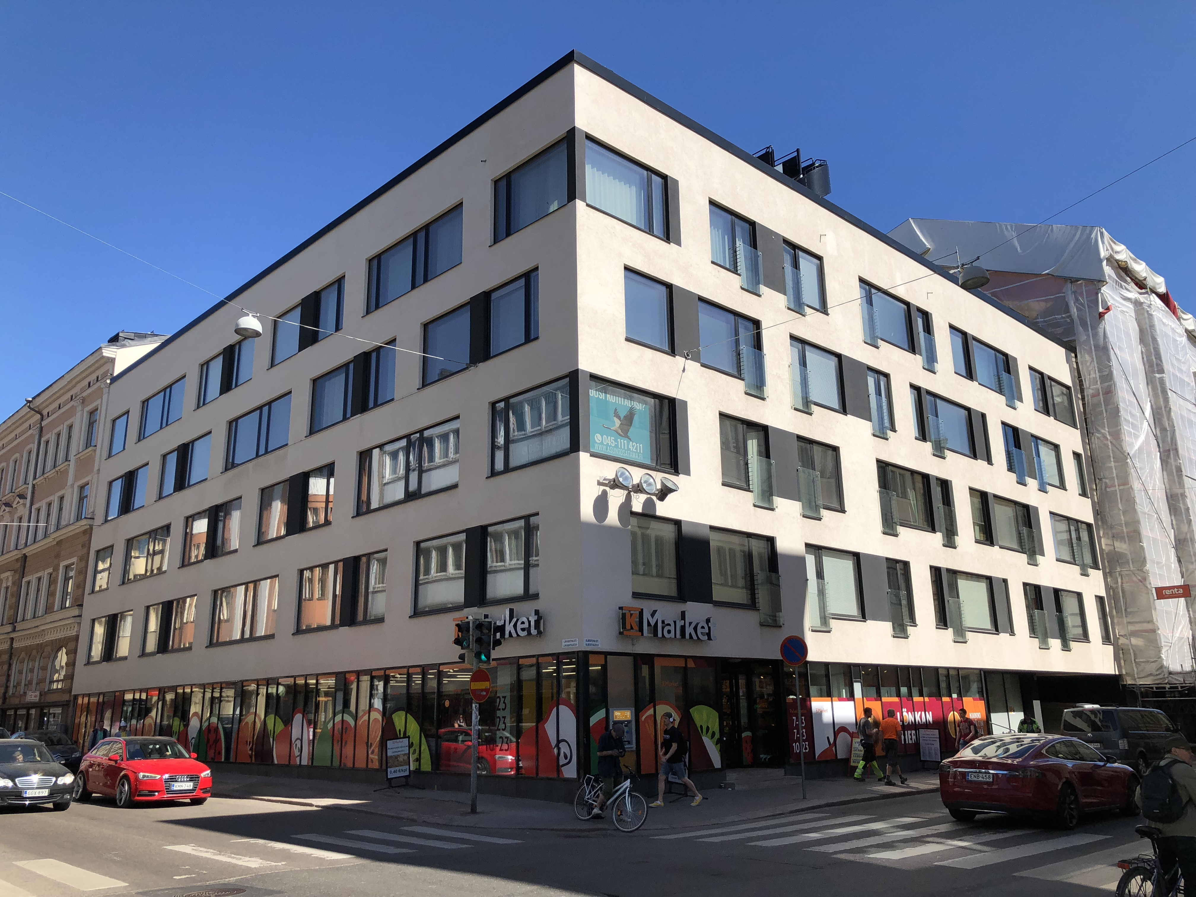 Albertinkatu 27 Helsinki Finland May 2018